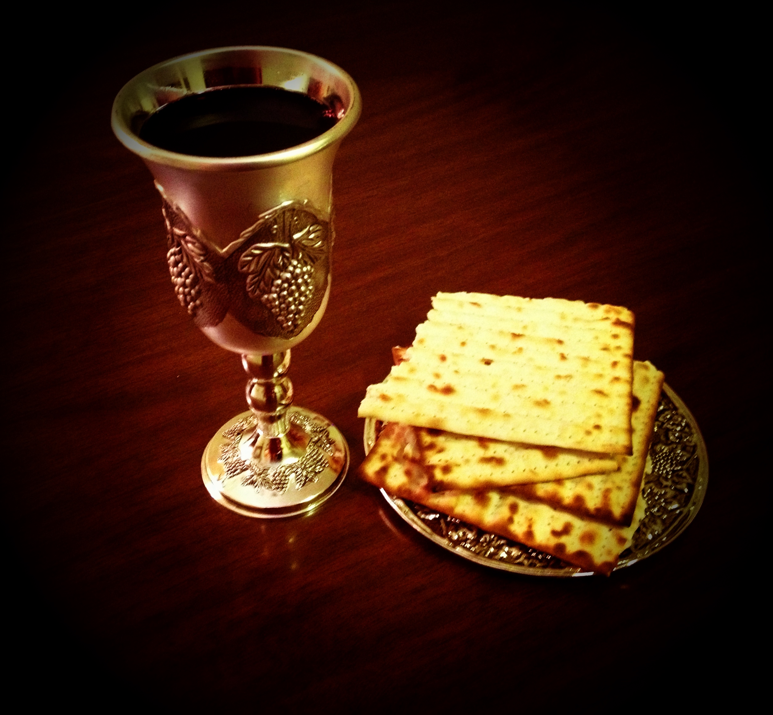 Fruit of the vine and bread